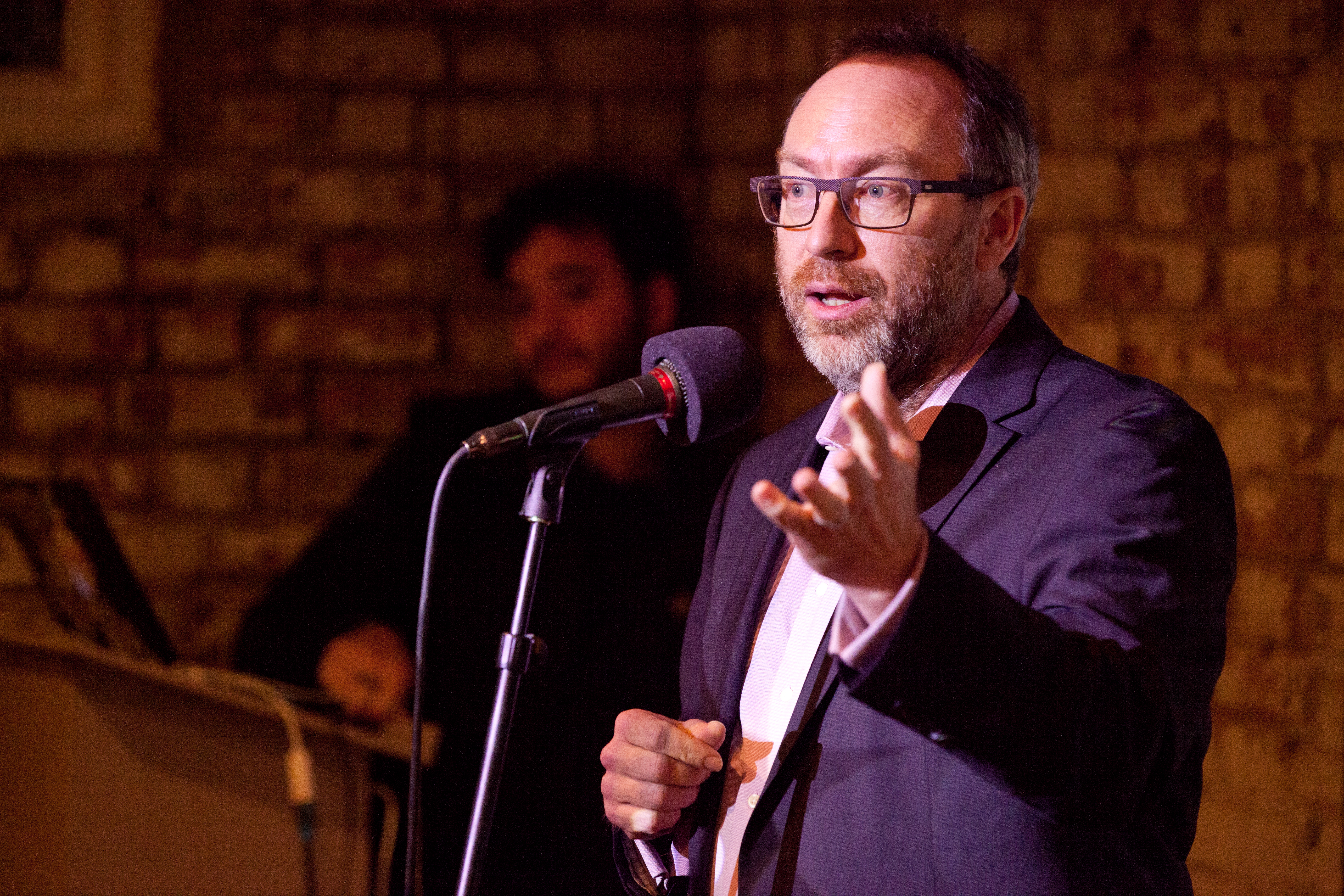 Wikipedia's 15th birthday party in London, hosted by Wikimedia UK and Newspeak House.